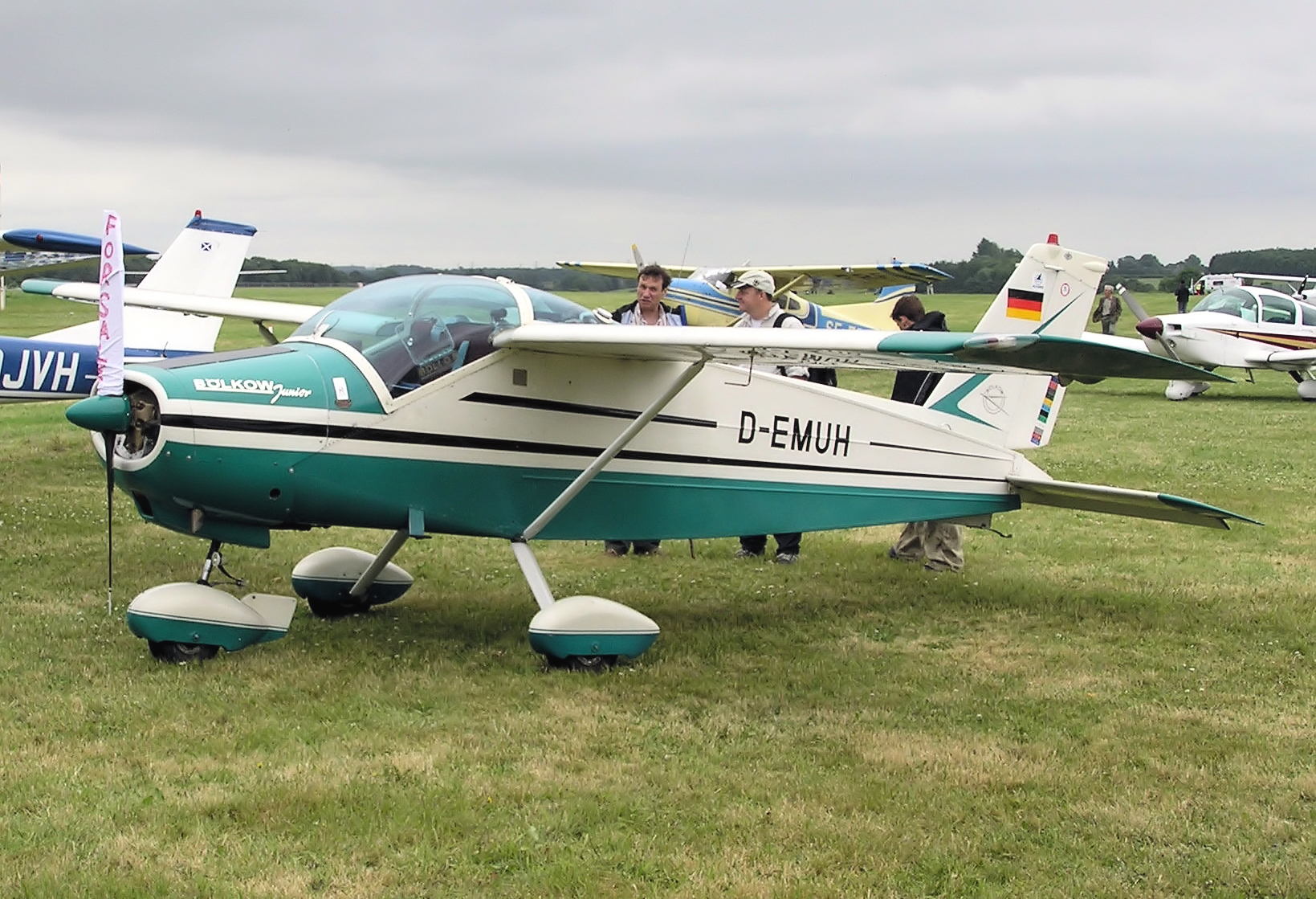 Bölkow Bo.208C Junior (with German registration D-EMUH) at Kemble Airfield (now Kemble Airport), Gloucestershire, England. This aircraft was built in 1966.